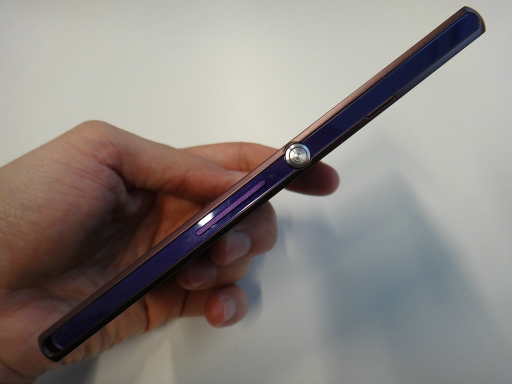 This illustrates Xperia Z's power button